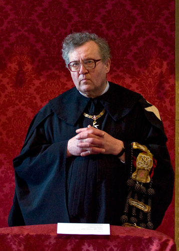 HMEH Fra' Matthew Festing, 79th Prince and Grand Master, Sovereign Military Order of Malta.